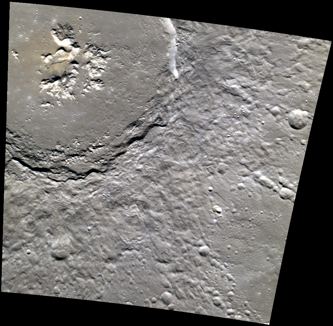 Date acquired: March 21, 2012 Image Mission Elapsed Time (MET): 240792733, 240792729, 240792725 Image ID: 1543743, 1543742, 1543741 Instrument: Wide Angle Camera (WAC) of the Mercury Dual Imaging System (MDIS) WAC filters: 9, 7, 6 (996, 748, 433 nanometers) in red, green, and blue Center Latitude: 60.41° Center Longitude: 351.5° E Resolution: 147 meters/pixel Scale: Abedin is 116 km (72 miles) in diameter Incidence Angle: 60.6° Emission Angle: 26.8° Phase Angle: 33.7° Of Interest: Abedin crater is one of several large, fresh craters that formed within Mercury's northern volcanic plains deposit. The northern plains appear to be a thick deposit of relatively uniform composition, and Abedin also shows little color variation in its ejecta; portions of Abedin's impact melt are slightly more red in this view. This image was acquired as a high-resolution targeted color observation. Targeted color observations are images of a small area on Mercury's surface at resolutions higher than the 1-kilometer/pixel 8-color base map. During MESSENGER's one-year primary mission, hundreds of targeted color observations were obtained. During MESSENGER's extended mission, high-resolution targeted color observations are more rare, as the 3-color base map is covering Mercury's northern hemisphere with the highest-resolution color images that are possible.